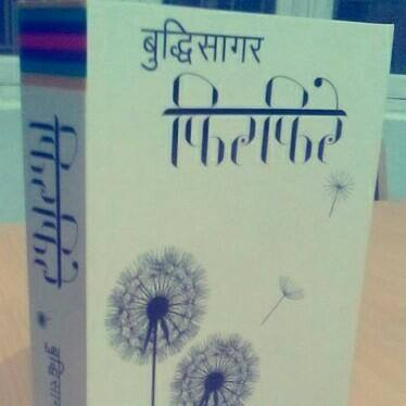 Firfire by Buddhi Sagar